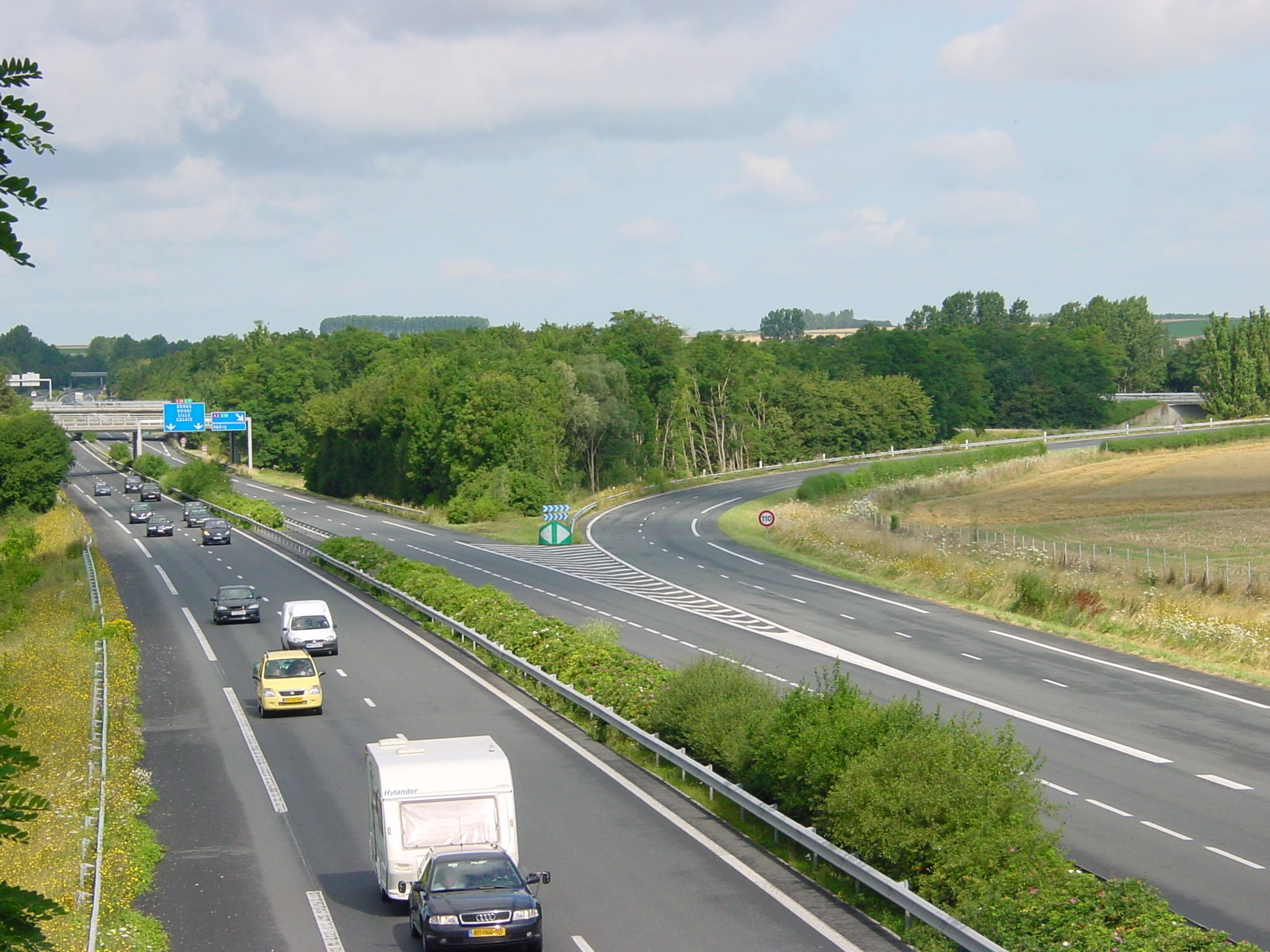 A26 motorway at its intersection with A2 near Cambrai (France)